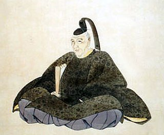 Arakida Moritake (1473 — 1549). (荒木田 守武) Japanese poet